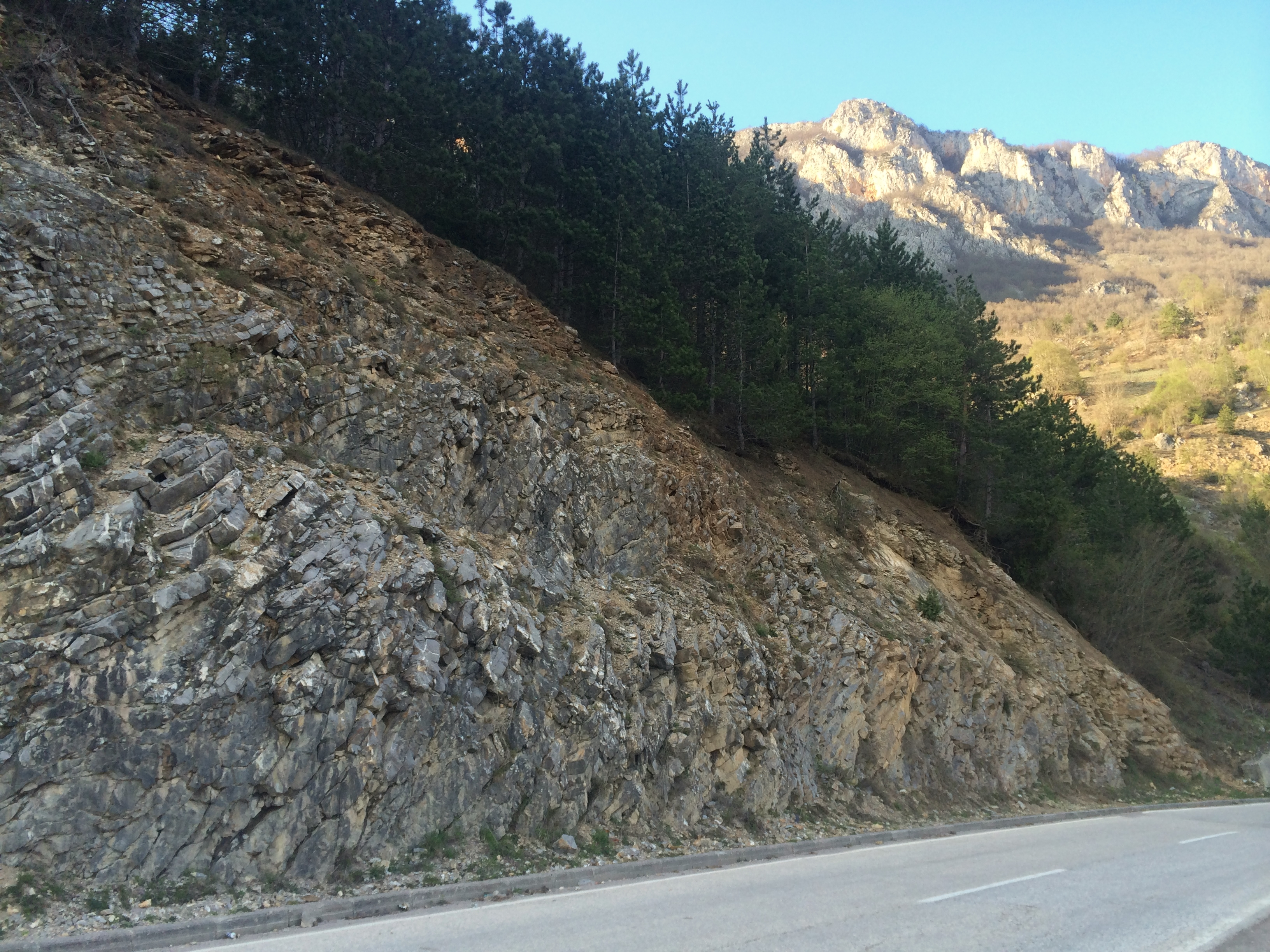 Image from the small village Donja Strmica, municipality of Rudo, in southeastern Bosnia-Hercegovina. Limestone formations along the road R467.